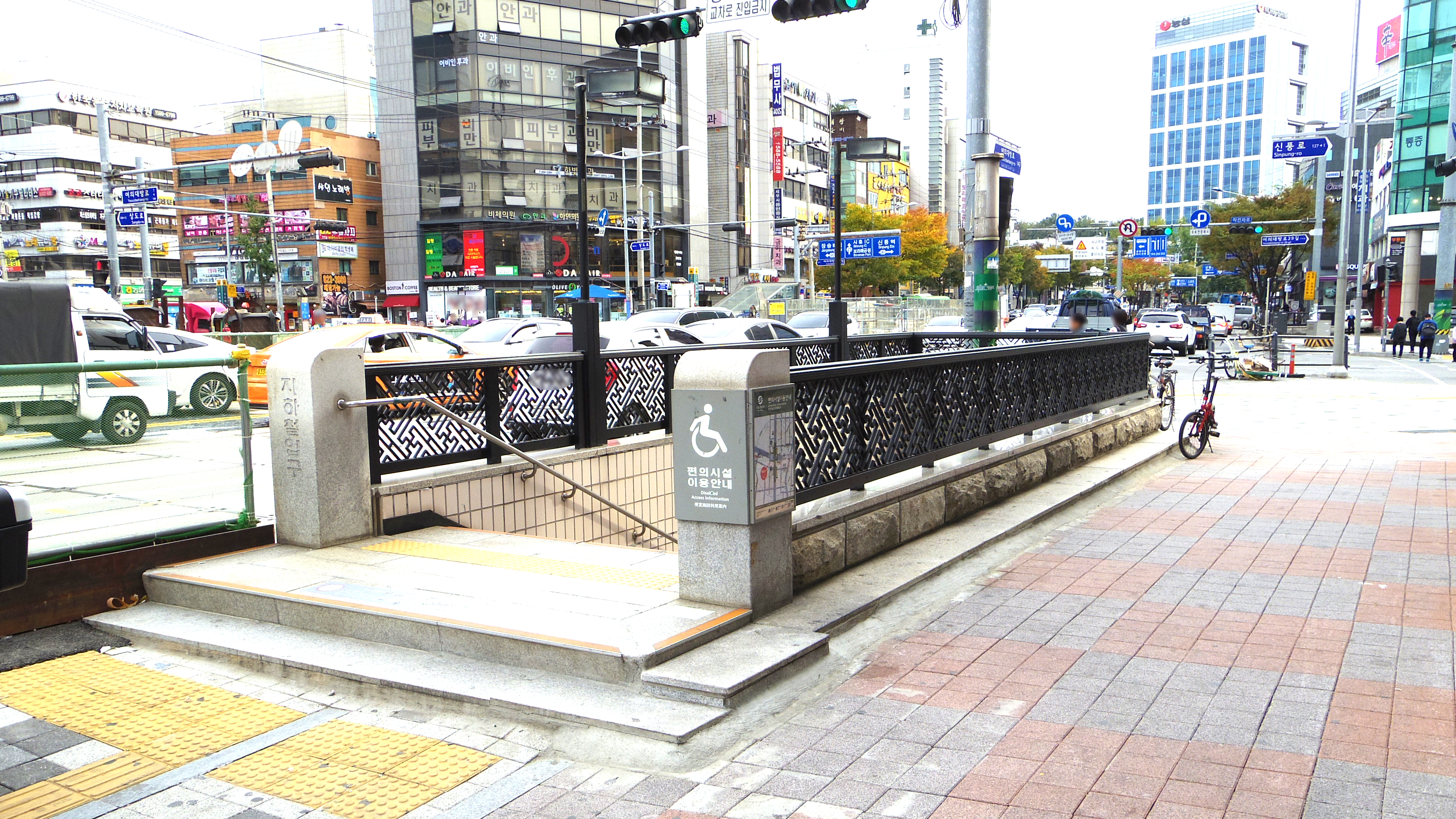 The no.6 entrance to Boramae Station on the Seoul Metro Line 7 in Yeongdeungpo-gu, Seoul, Republic of Korea(South Korea)